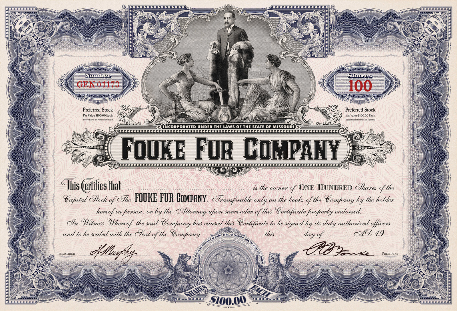 Fouke Fur Company, Stock Certificate One Hundred Shares.